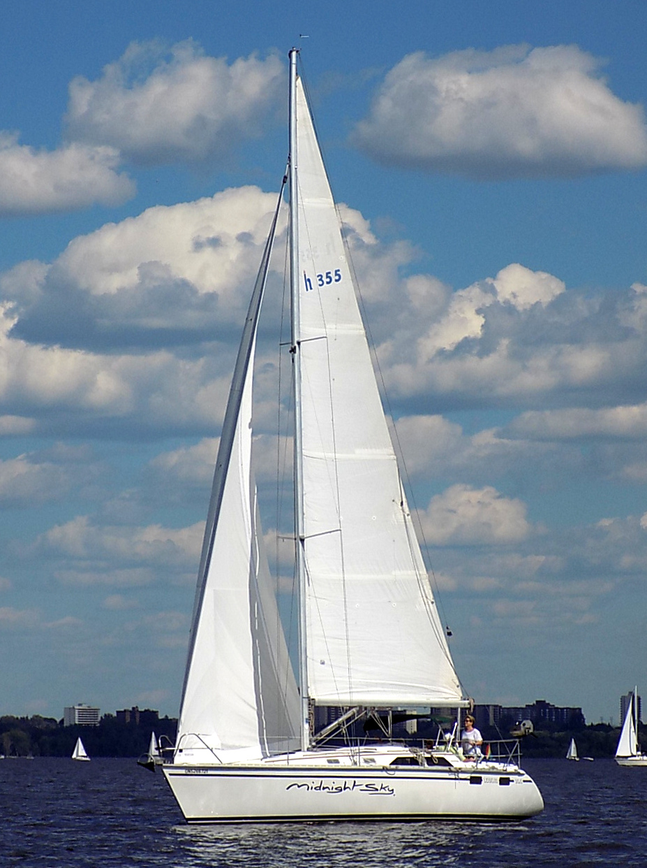 A Hunter 35.5 Legend sailboat named Midnight Sky.